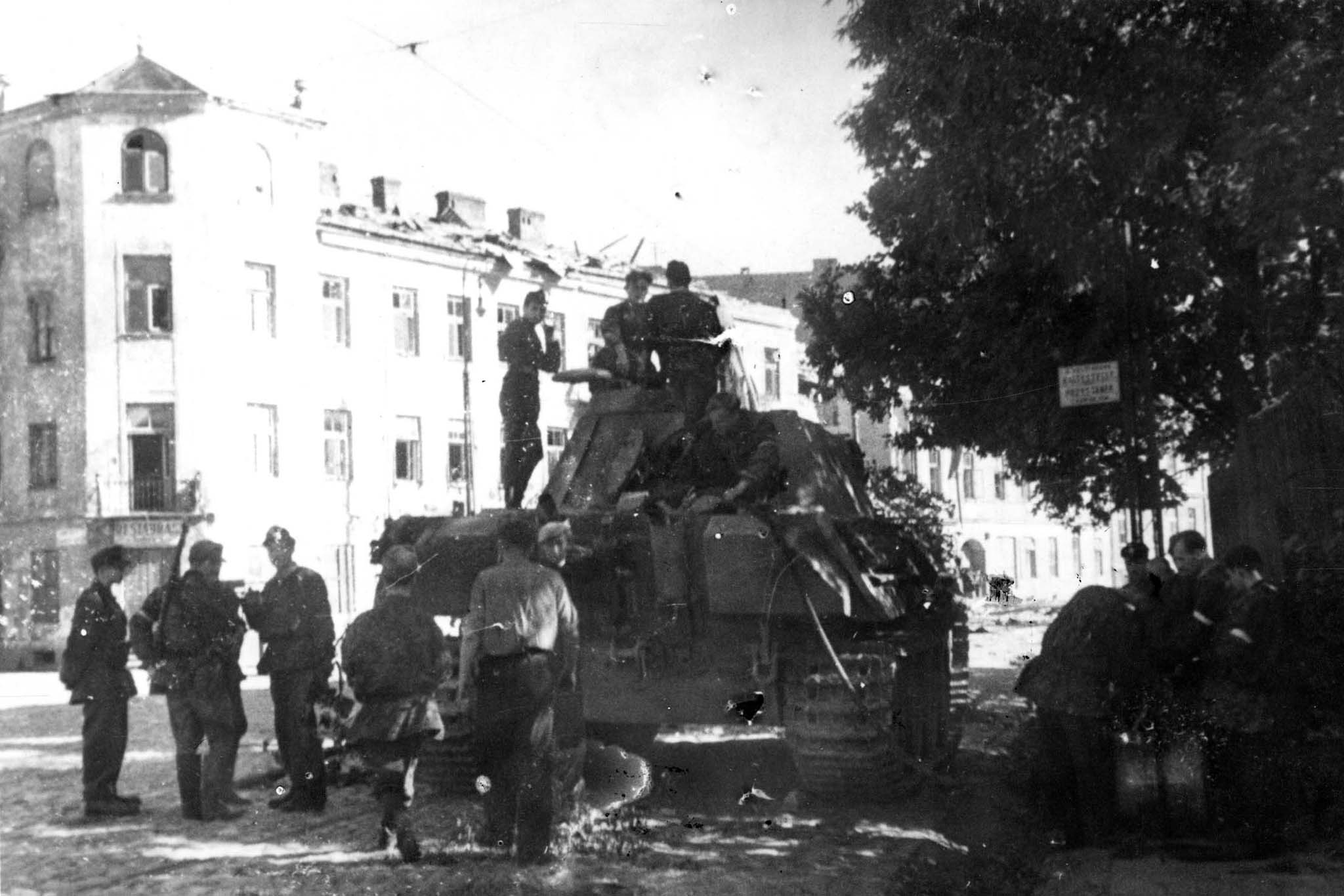 WarsawUprising: Soldiers of tank platoon "Wacek" of ""Zośka" Battalion on a German Panther tank on the corner of Okopowa and Wolność Street.